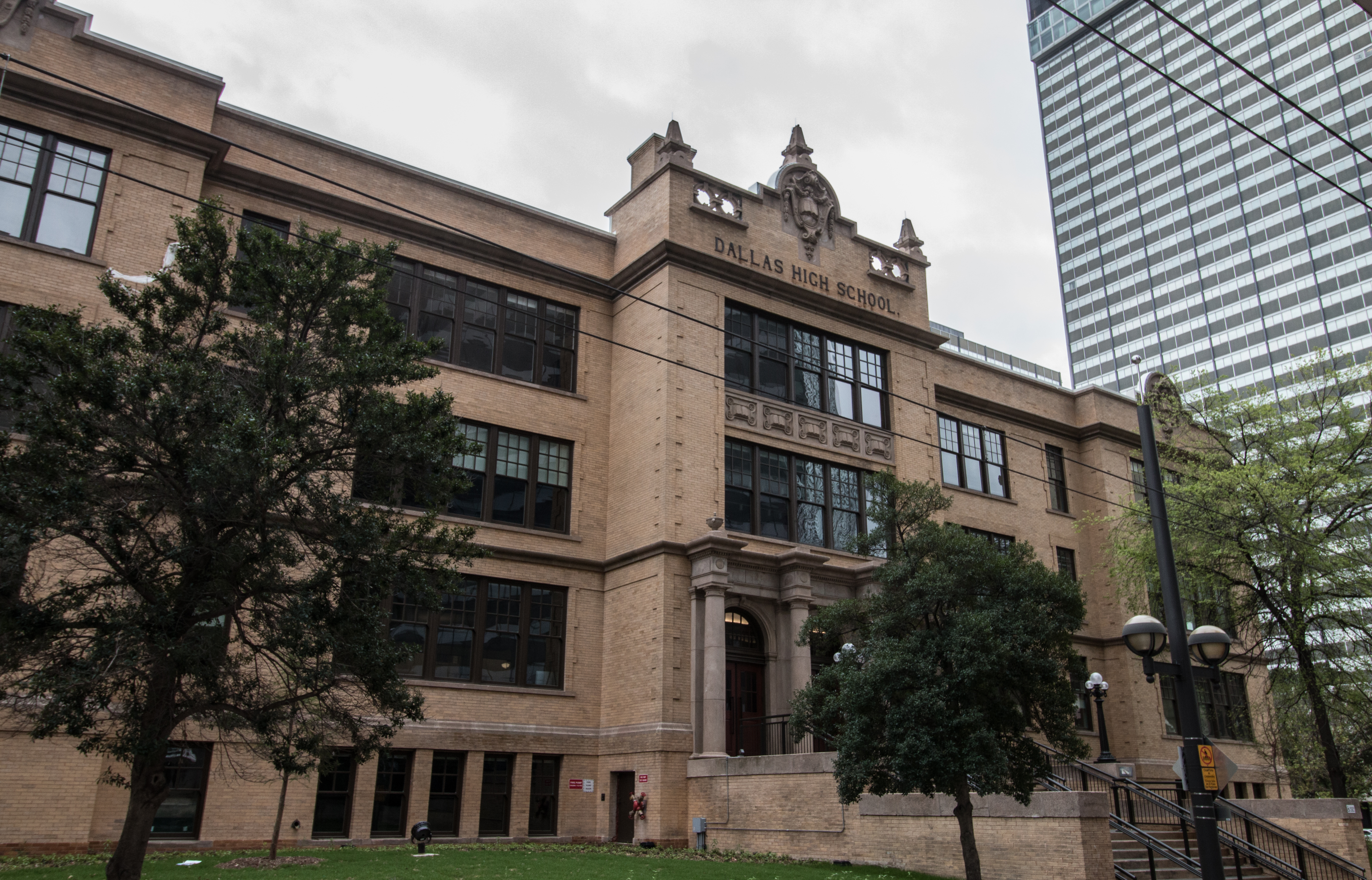 Dallas High School in Dallas, Texas